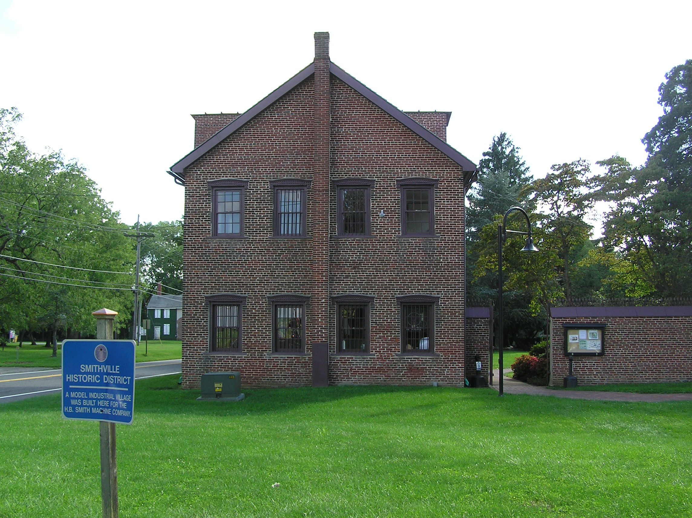 Smithville Historic District, Smithville Road, Smithville, NJ. View of the Schoolhouse.